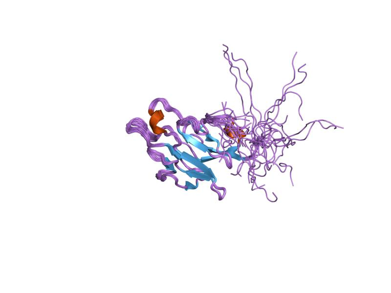 Cartoon representation of the molecular structure of protein registered with 2csw code.